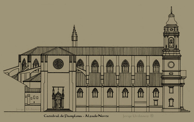 North facade elevation, cathedral of Pamplona